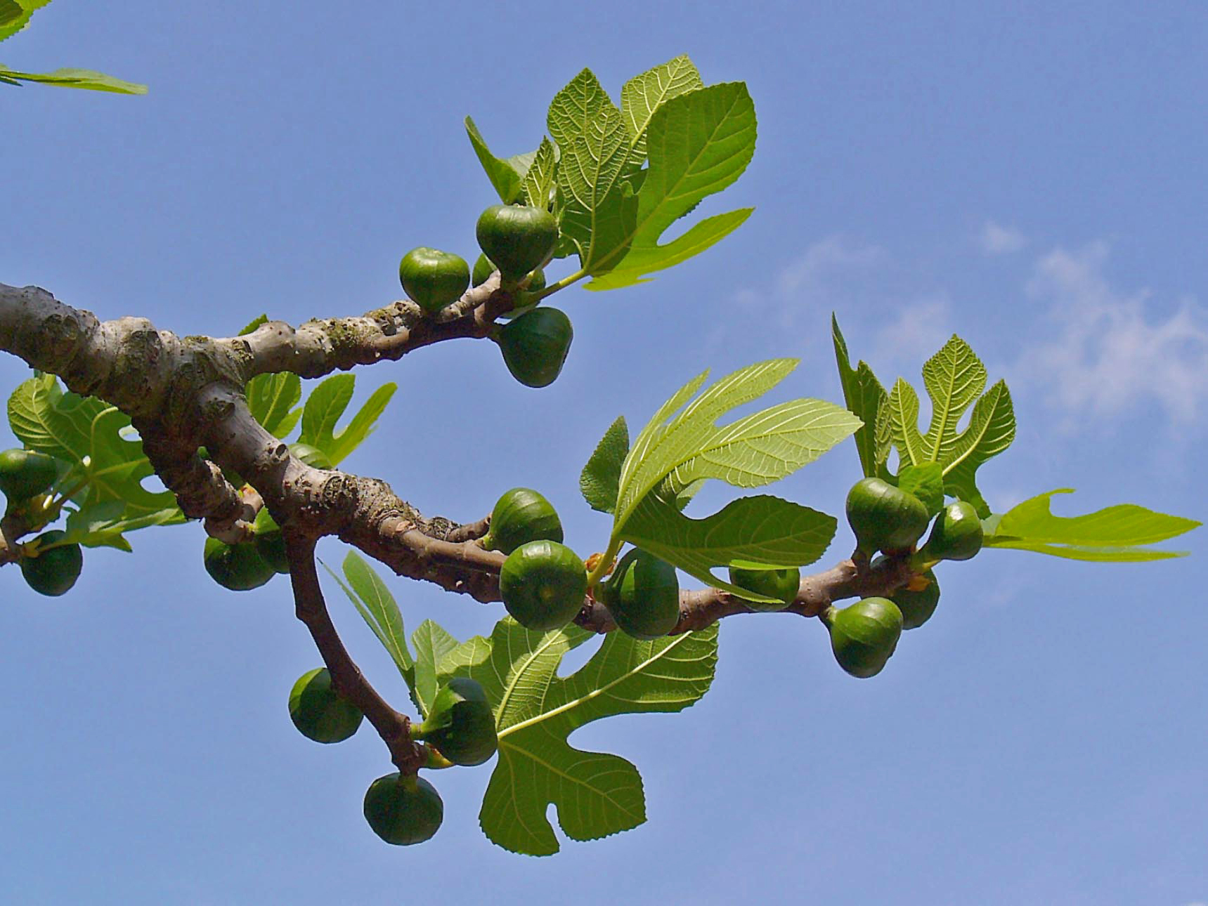 Ficus carica, Moraceae, Common Fig, developping infrutescences; Karlsruhe, Germany. The leaves are used in homeopathy as remedy: Ficus carica (Fic-c.)